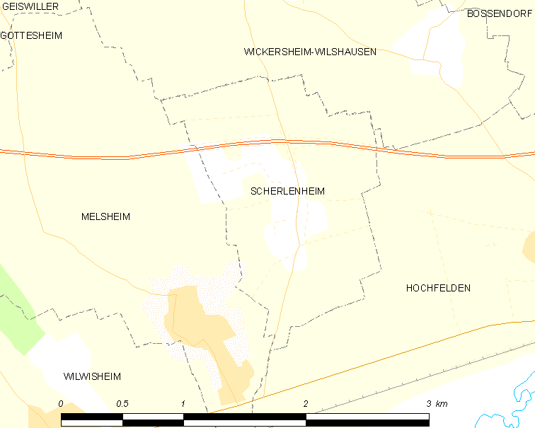 Map of French municipality